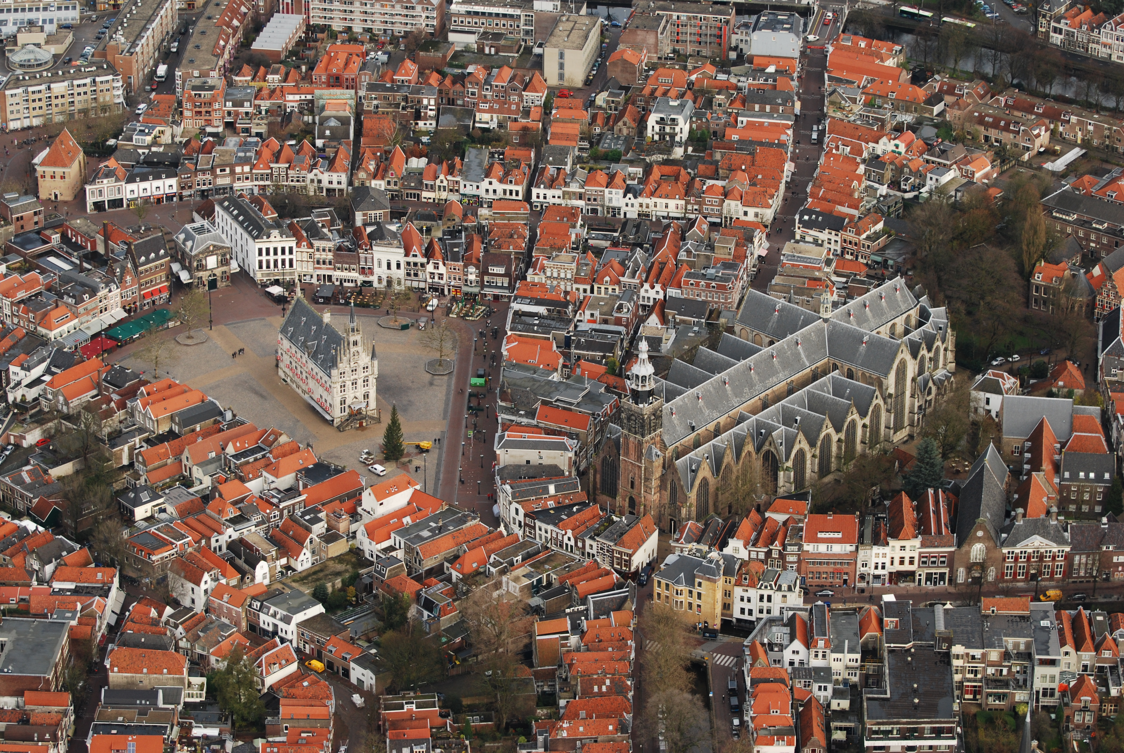 The historic city centre of the Dutch city of Gouda in birdview, with the Janskerk and the Markt square.